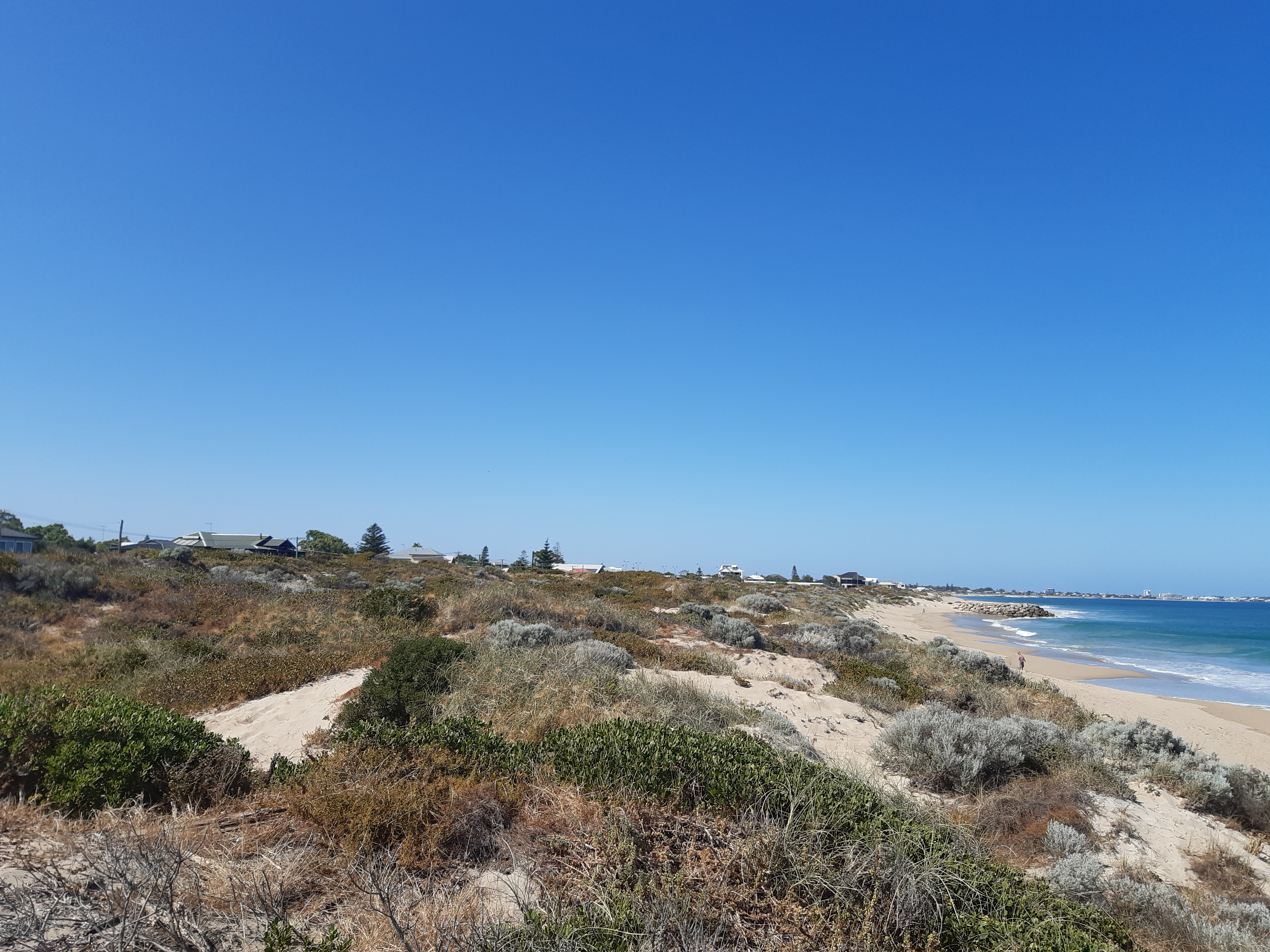 San Remo, Western Australia, as seen from the northern end of the beach, at Karinga Road.